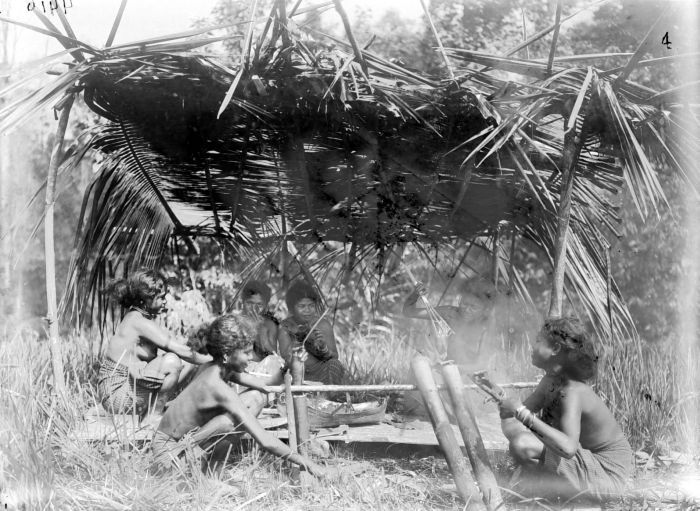 Natives of Seram island in Maluku cooking papeda